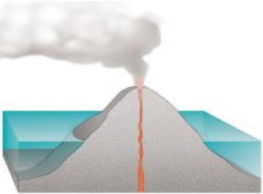 Internationalization of the diagram:Atoll forming. 1=Volcanic Island 2=Fringing reef 3=Barrier reeef Caption: Coral atolls develop from reefs fringing volcanic islands. As first hypothesized by Charles Darwin, and confirmed by ocean drilling done by British scientists a century ago, reefs fringing volcanic islands build vertically to sea level, forming steepwalled barrier reefs. As a volcanic island subsides, or sinks, with time, the growing reef keeps pace with the rising water level. When the island eventually submerges, the ring-shaped reef forms an atoll with a central lagoon.